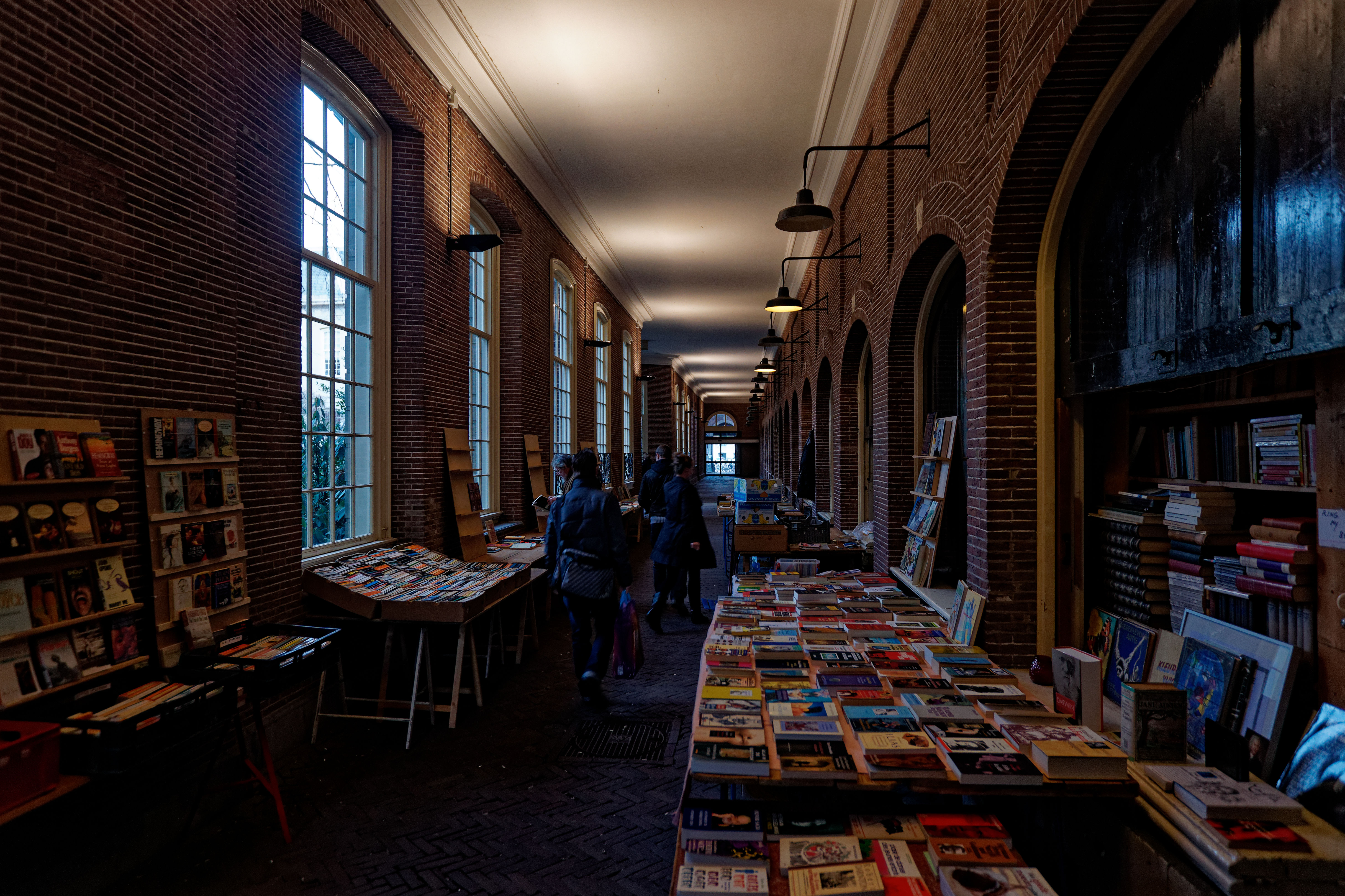 Amsterdam - Oudemanhuispoort - Passageway 1757 by G.Maybaum with 14 Shop Closets in use since 1757